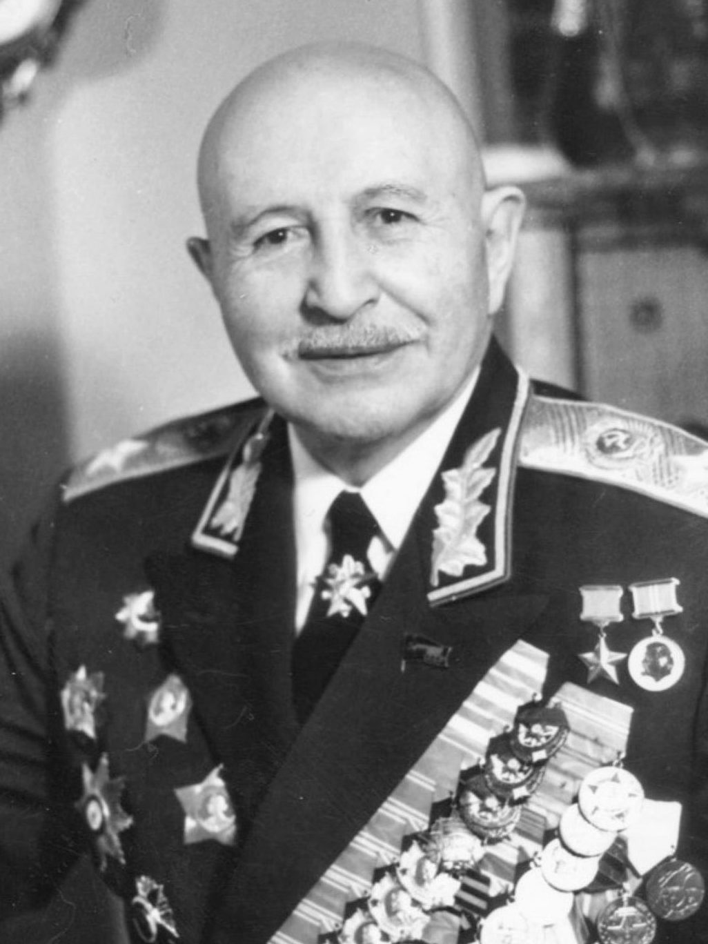 Marshal Ivan Khristoforovich Bagramyan